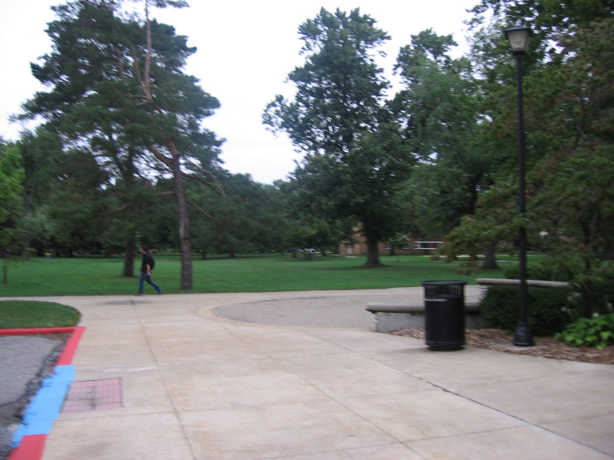 quad on Baldwin Wallace campus outside Ritter Library